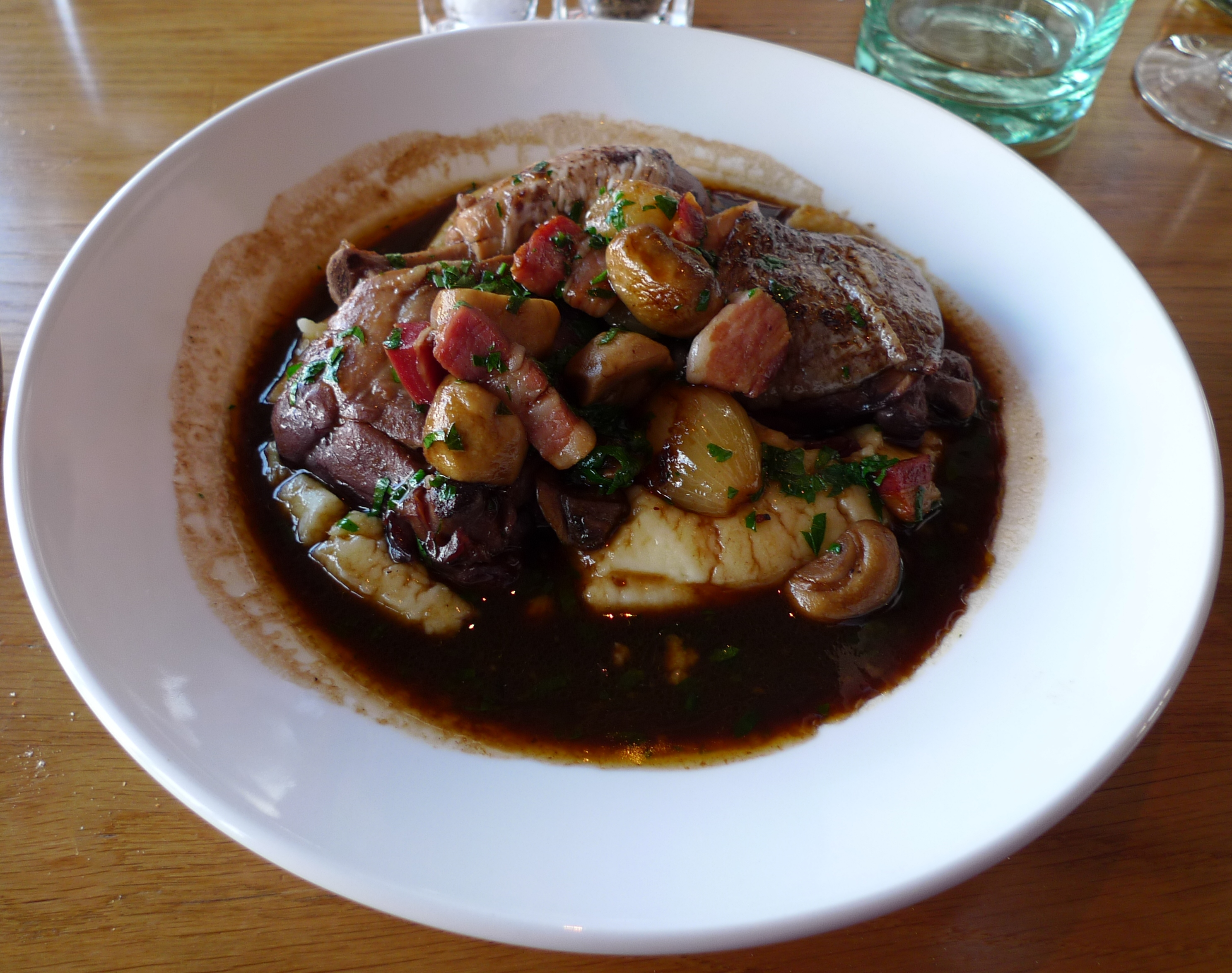 Coq au vin, with some very tasty chicken indeed. The meat just fell off the bone, lovely. At The Swan at the Globe, New Globe Walk.